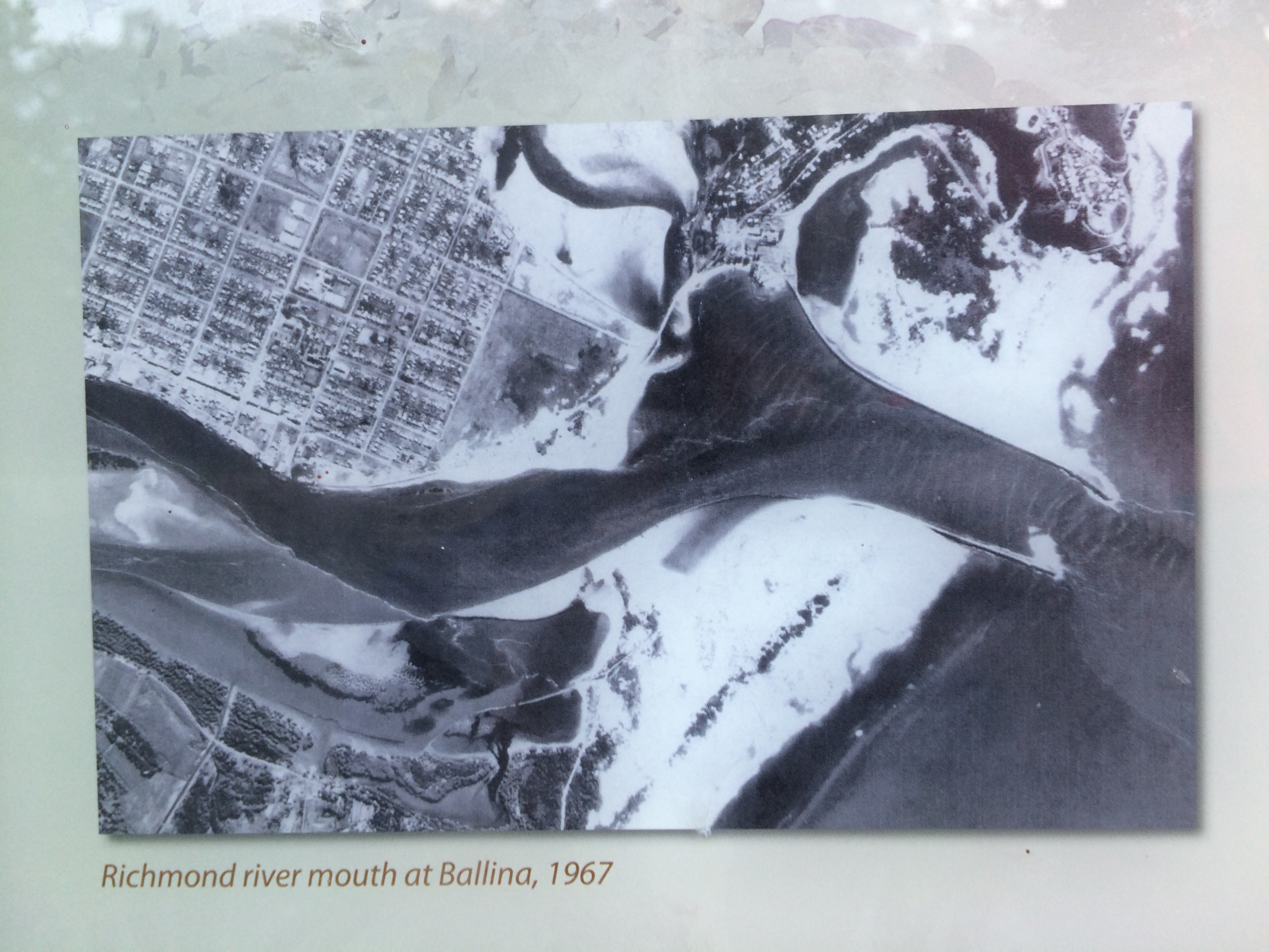 The lower Richmond River in 1967.